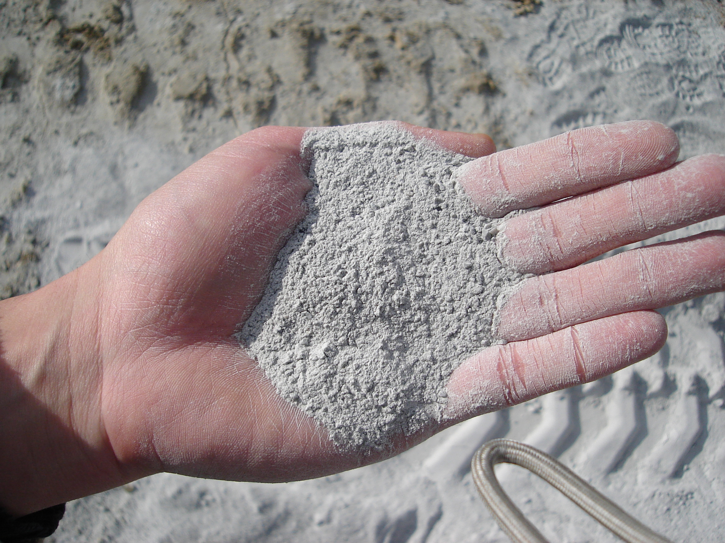 Limestone aggregate, sand